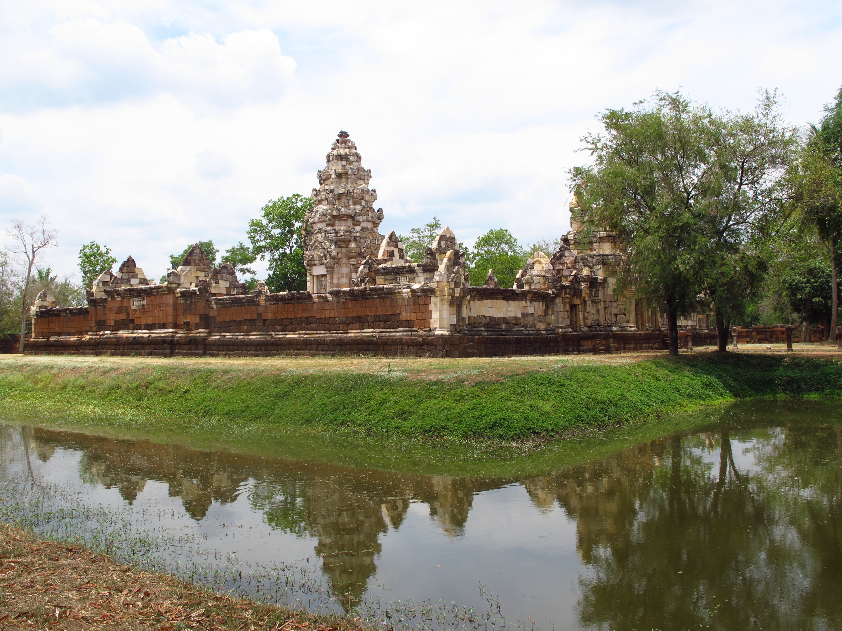 sadokkoktom area